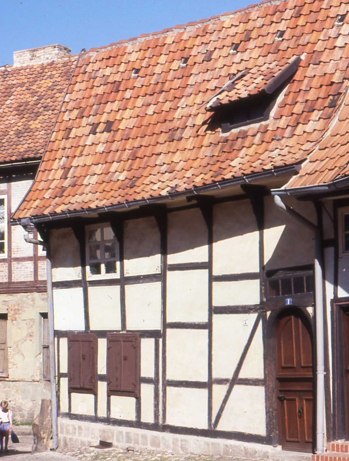 Somewhere near the Lyonel Feininger museum which was only opened in 1986. In 1994 Quedlinburg became a UNESCO world heritage site.